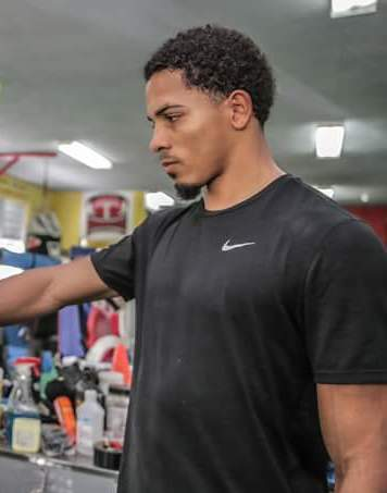 Felix Verdejo in 2018